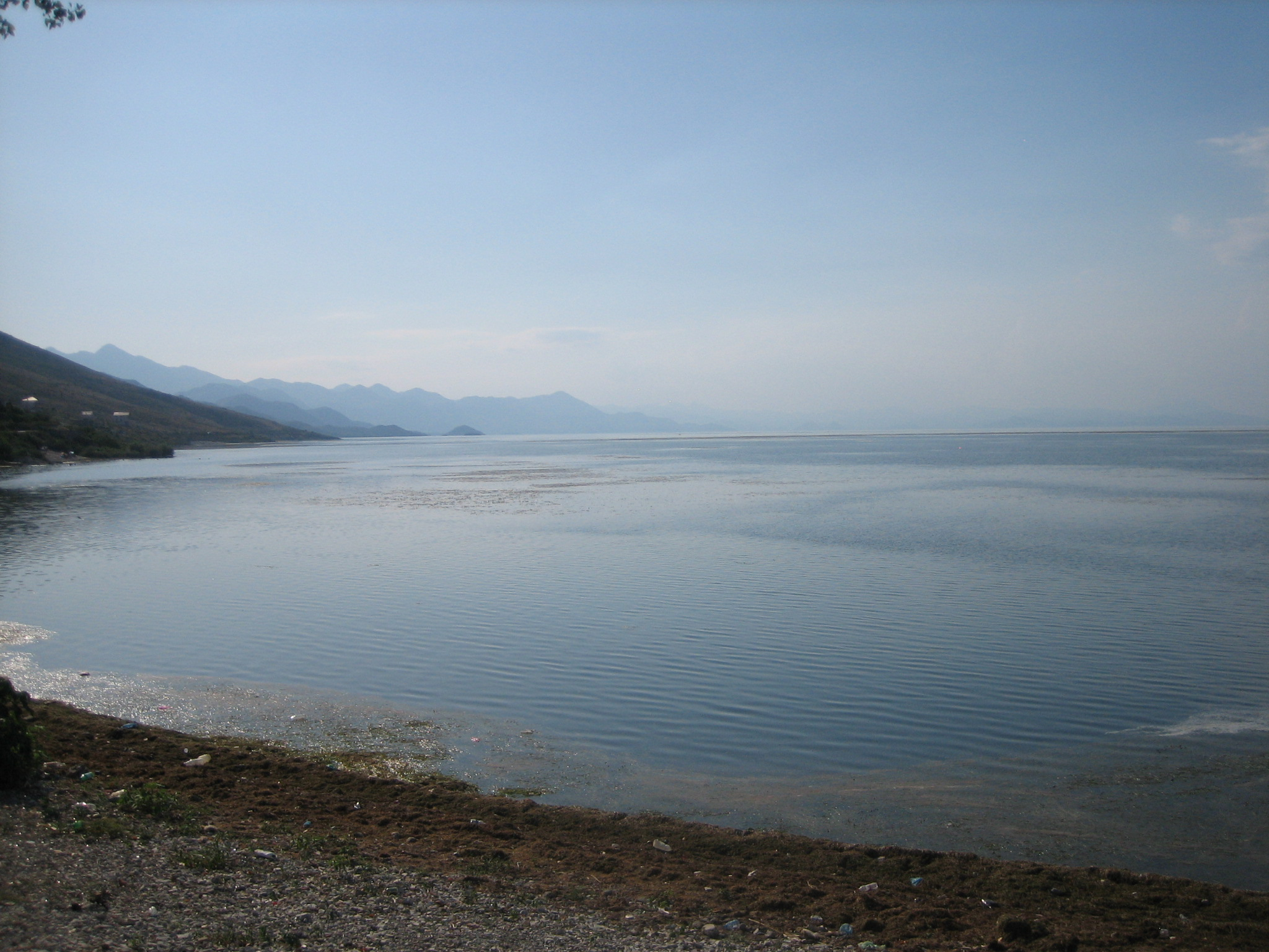 Lake Skadar from the beach at Shirokë, Shkodër, Albania